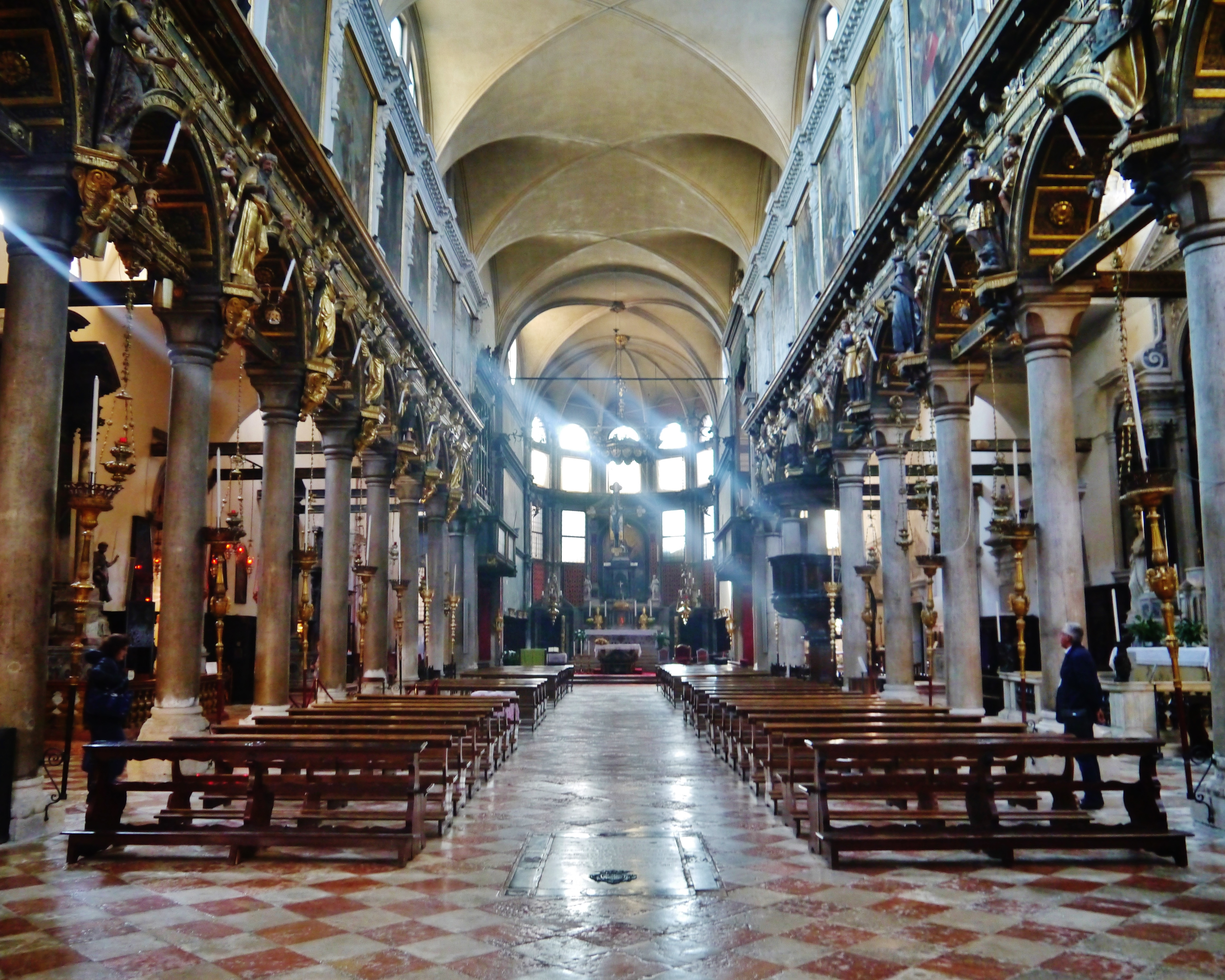 Nave of the Church of St. Mary of Carmini, Venice, Metropolitan City of Venice, Region of Veneto, Italy